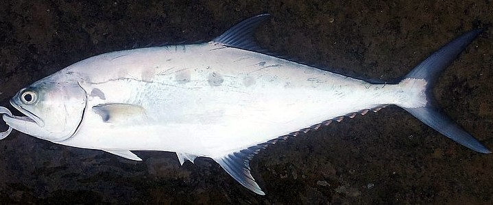 Queenfish from Cape York, Scomberoides commersonianus